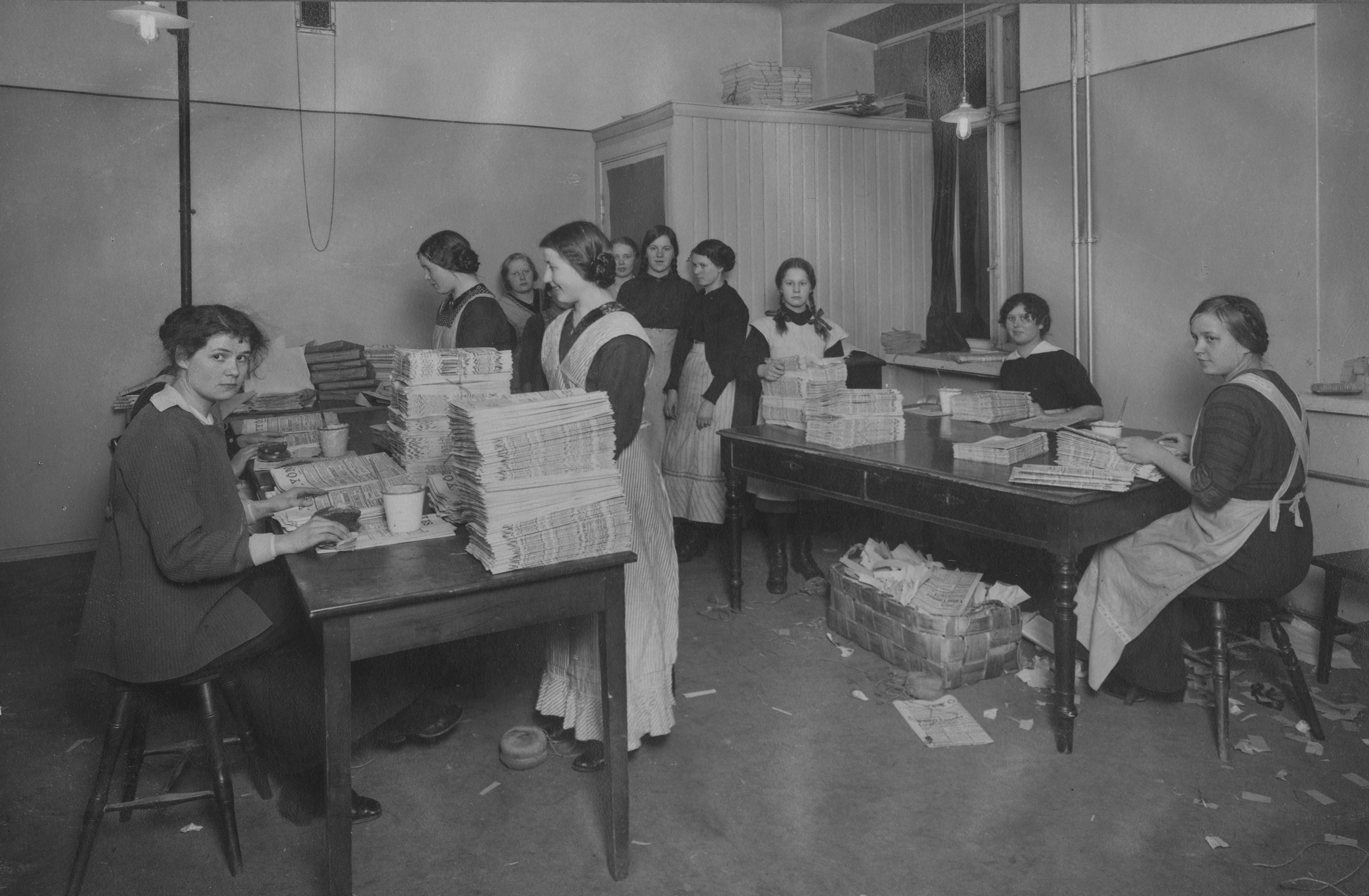 Mailing the newspaper "Työmies" in Helsinki, Finland.